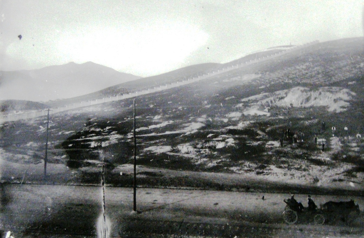 View of the Jewish cemetery in Bitola. 1898-1912 This media file is produced by Wikipedian in Residence in Category:Wikipedian in Residence at DARM in 2016.